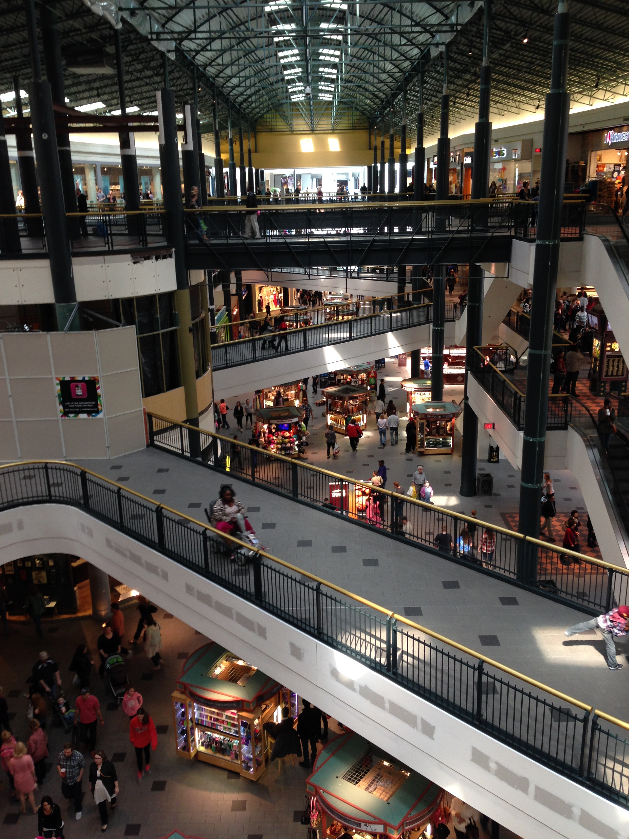 Inside the Mall of America in Bloomington, Minnesota. The mall has three levels.